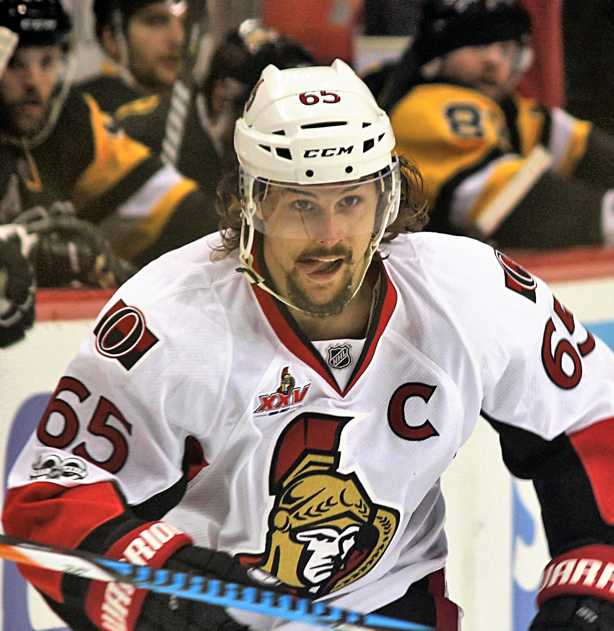 Ottawa Senators captain Erik Karlsson during a playoff game against the Pittsburgh Penguins, May 13, 2017, at PPG Paints Arena in Pittsburgh, PA.